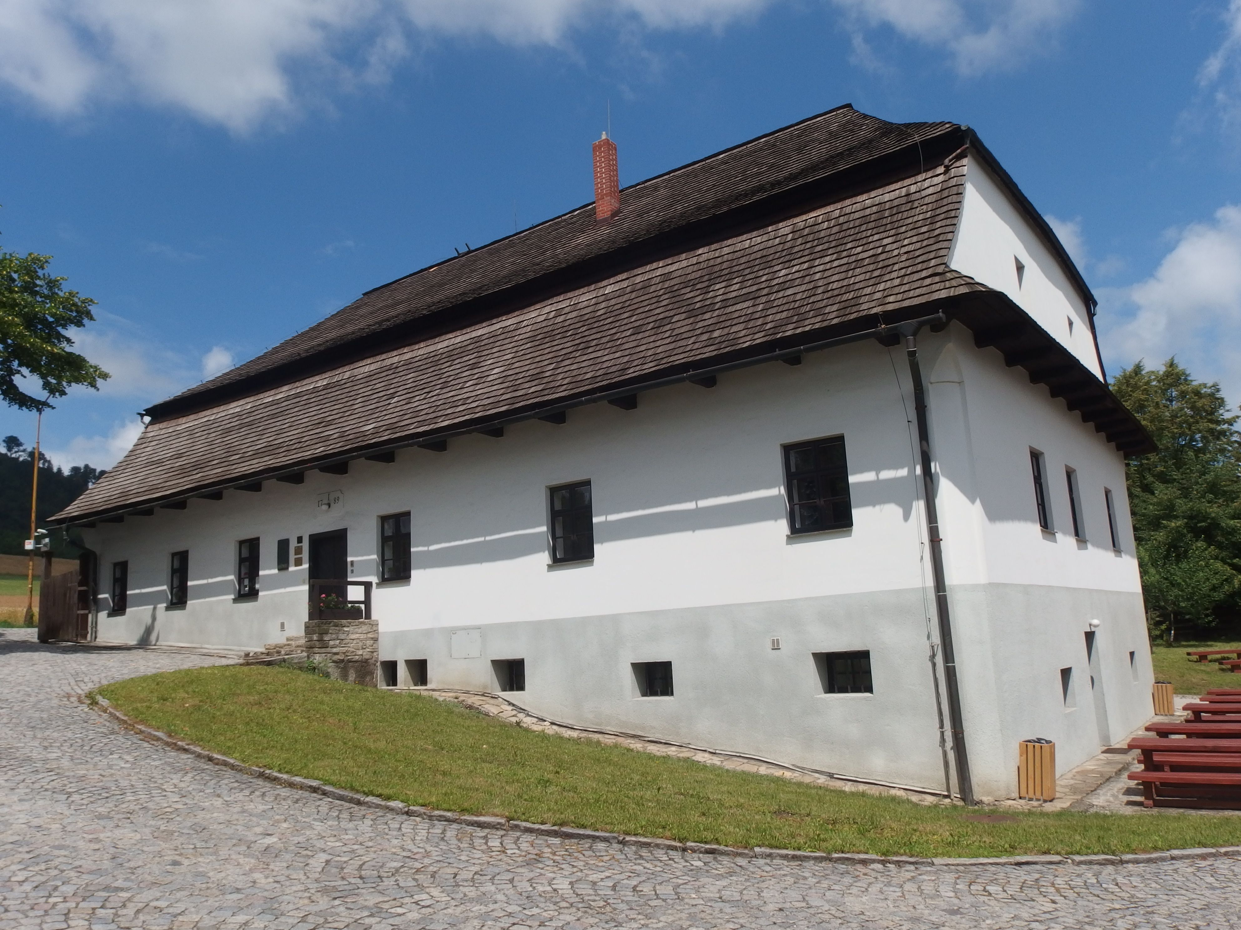 Kopřivnice, Nový Jičín District, Czech Republic.